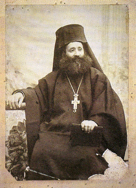 Photo of Platon Ayvazidis (about 1910) from the book "Μορφές Μακεδονομάχων" 1984, ISBN 960 -7022 - 27 - 0